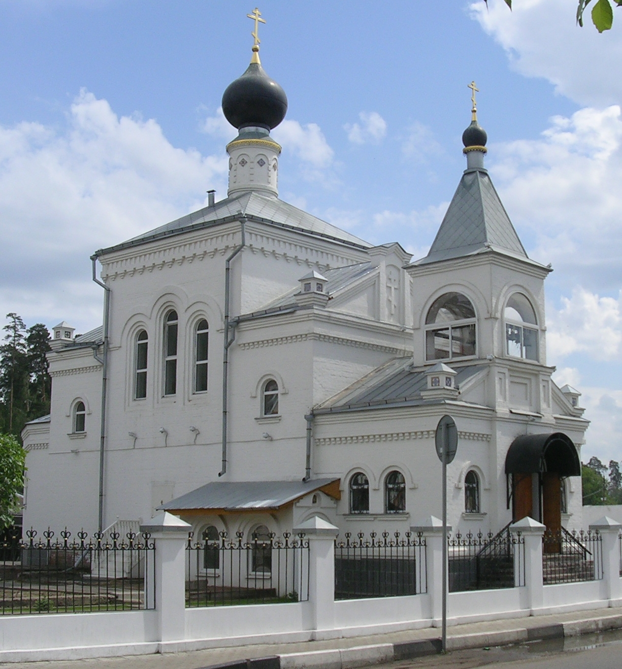 Hieromartyr Konstantin Temple in Oktyabrsky microdistrict of Noginsk city. View form north-west.